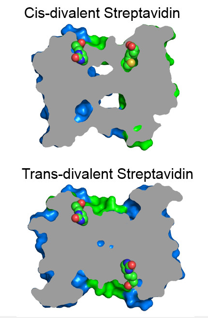 Slice through middle of streptavidin comparing biotin orientation in cis-divalent and trans-divalent streptavidin. To be used on Streptavidin page.